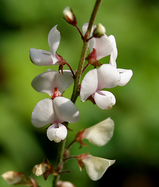 Desmodium gangeticum (syn. Hedysarum Gangeticum)- Sal Leaved Desmodium • Hindi: ध्रुवा dhruva, दीर्घमूली dirghamuli, पीवरी pivari, सालपानी salpani, शालपर्णी shalparni • Manipuri: পোৰোঙখোক Porongkhok • Marathi: डाय dai, रानगांज्या ranganjya, साळवण salvan • Tamil: புள்ளடி pullati • Malayalam: ഓരില orila • Telugu: గీతనారము gitanaramu • Kannada: ಮೂರೆಲೆಹೊನ್ನೆ murelehonne • Bengali: chalani, salpani • Oriya: salaparni • Konkani: सालपर्णी salparni • Nepali: बन गहत ban gahat, सालीपरनी saliparni • Gujarati: સલવાન salwan • Sanskrit: अंशुमती anshumati, ध्रुवा dhruva, दीर्घमूला dirghamoola, पीवरी pivari, शालपर्णी shalaparni- at Ananthagiri Hills, in Rangareddy district of Andhra Pradesh, India.